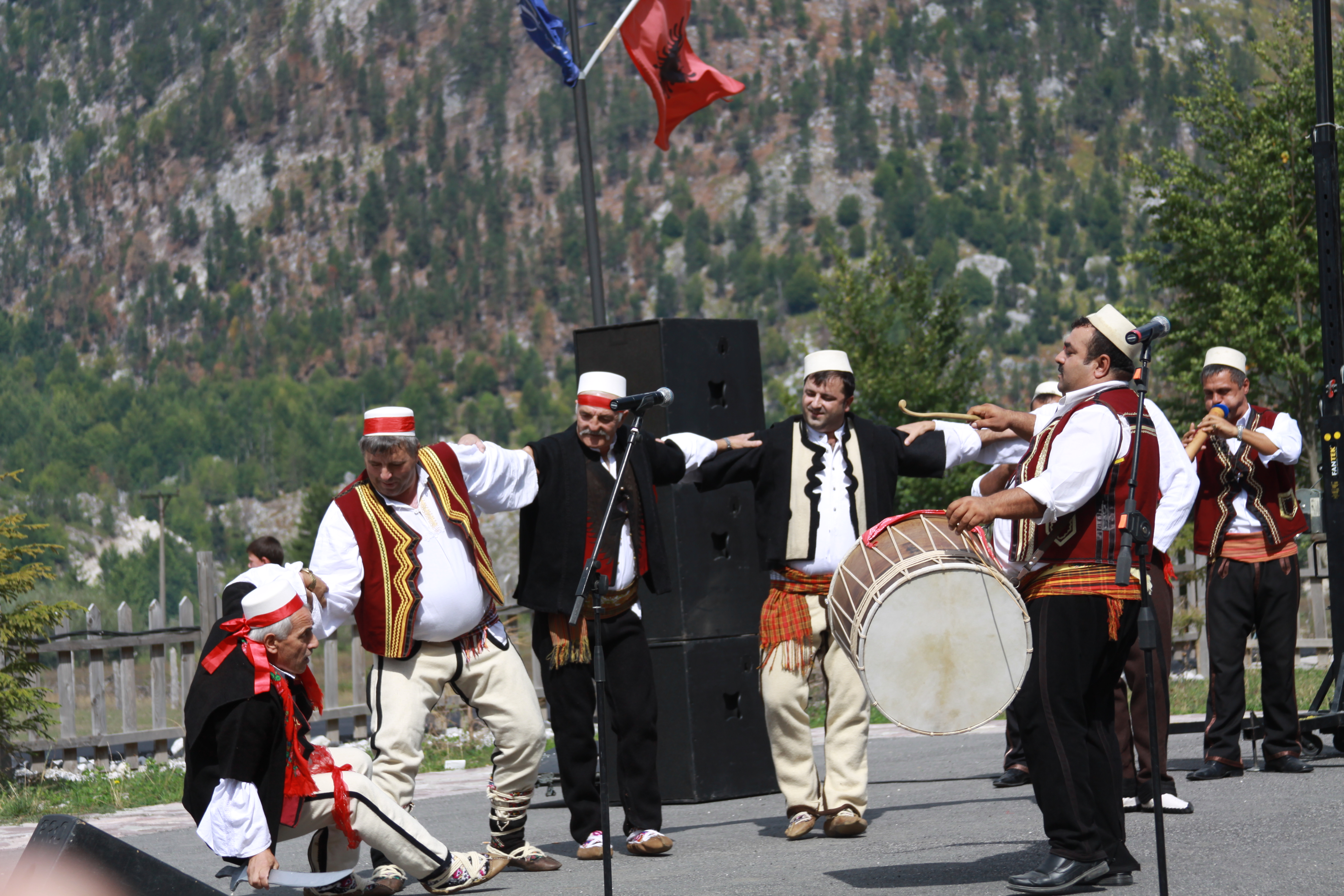 Valle qe luhen nga burrat ne krahinen e Lumes,Kukes